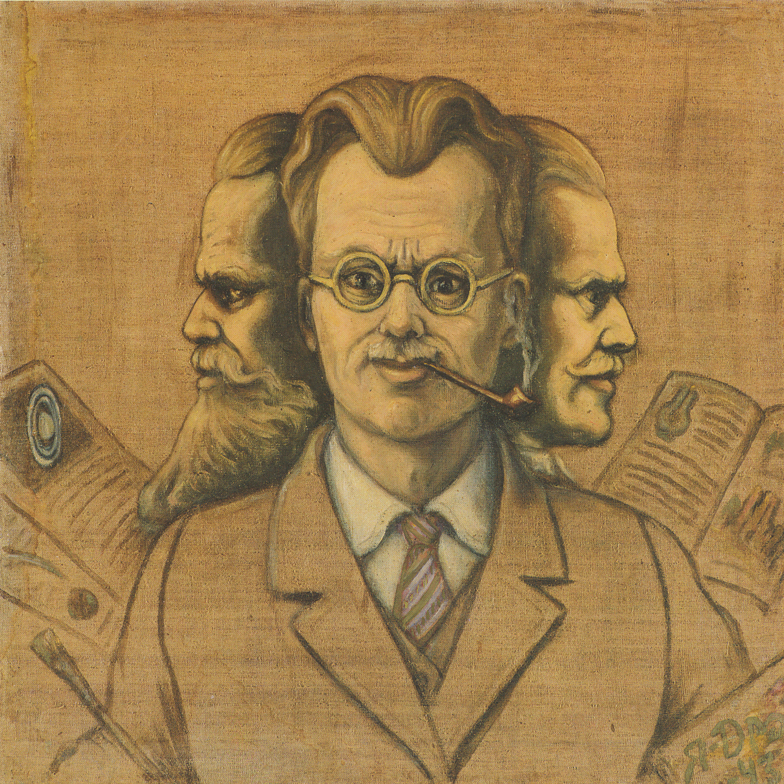 Self-portrait of Belarusian painter Jazep Drazdovič.